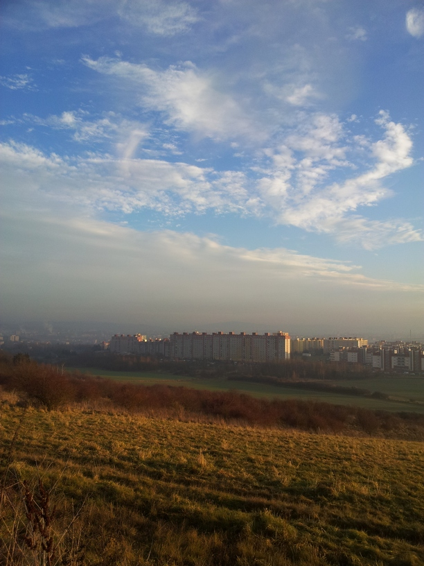 Vinice, district of Plzeň ( Pilsen ) City, the Czech republic